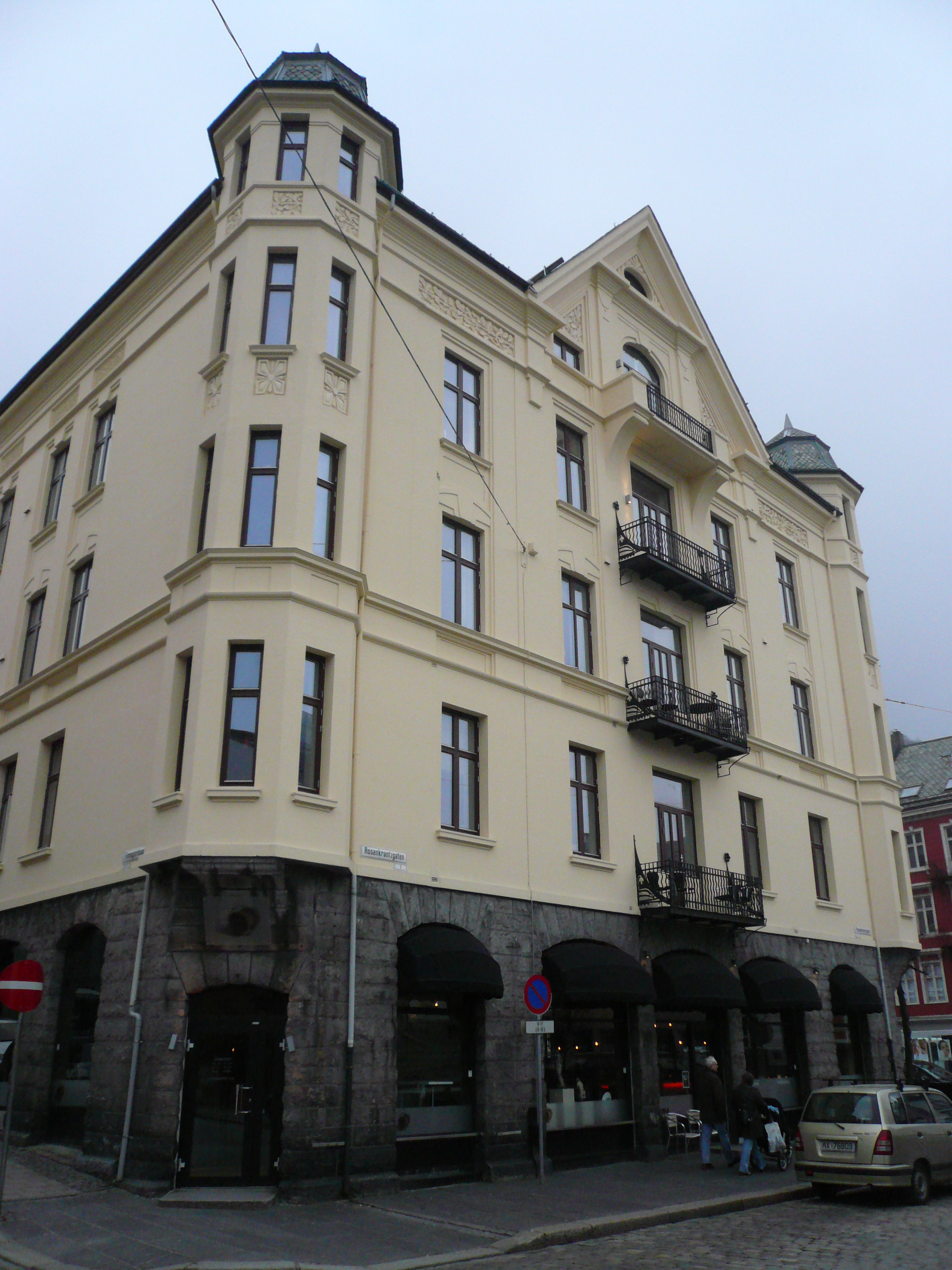 Vetrlidsallmennigen 4, Bergen, Norway